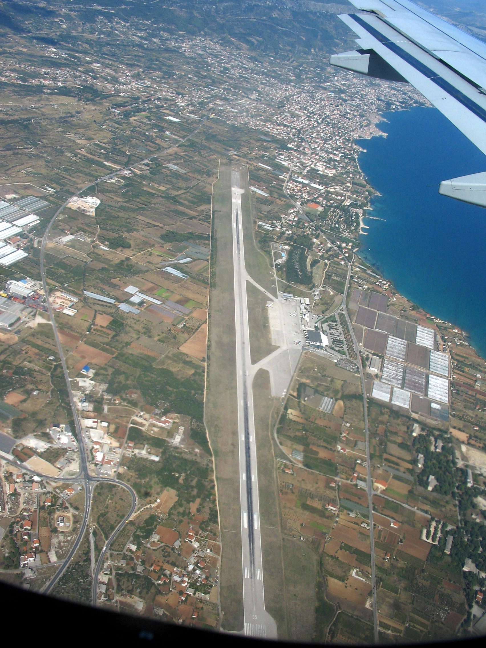 Aerial view of Split airport/Croatia